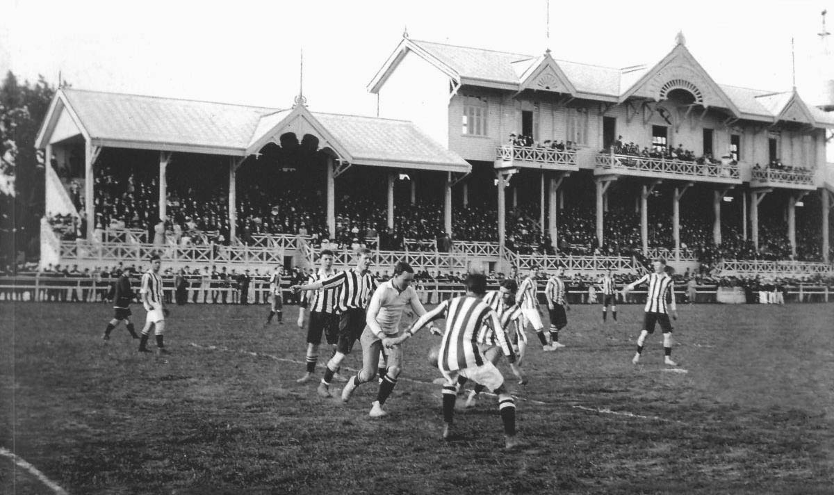 Argentine football teams Alumni AC (in white shorts) and Porteño during the championship playoff of 1911 at Gimnasia y Esgrima (Buenos Aires) stadium. Alumni won by 2-1 also achieving its 10th. Primera División title. That same year the club would be dissolved.